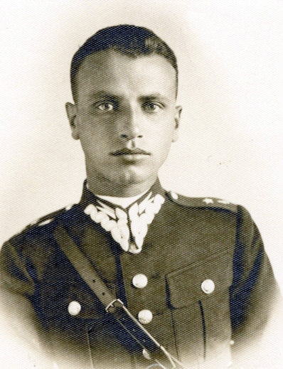 Zygmunt Szendzielarz (1910 – 1951) was the commander of the Polish 5th Wilno Brigade of the Home Army (Armia Krajowa), nom de guerre "Zagończyk" or "Łupaszka"